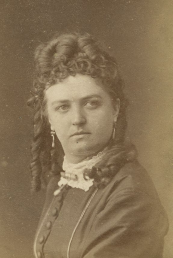 Artist: C. L. Jacobsen Date/place: Unknown date/Stavanger Subject: Hedvig Willman Medium: Photographic posetive Notes: Swedish soprano. Born in Stockholm 18.07. 1841 - dead 15.08. 1887 Original belongs to the Archives at [#//bergenbibliotek.no/digitale-samlinger” Bergen Public Library]